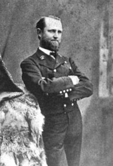 Studio portrait of a standing man in nautical uniform, identified as captain Charles M. Scammon. Scammon was a New England sea captain who turned from hunting whales to studying and writing about them. He held a commission in the Revenue Cutter Service and was involved in the Russian-American Telegraph Expedition and in exploration of Alaska. This photograph appeared in a retrospective of distinguished contributors to the Overland Monthly and is probably much earlier than 1902, judging both by Scammon's age and the style of the photograph.